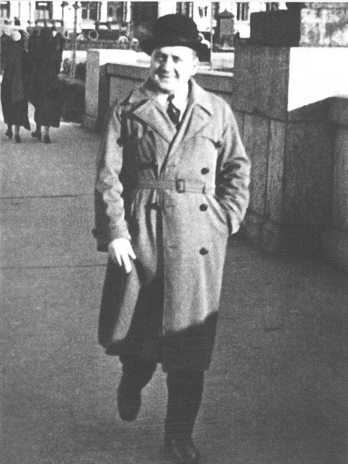 Matti Jurva finnish singer